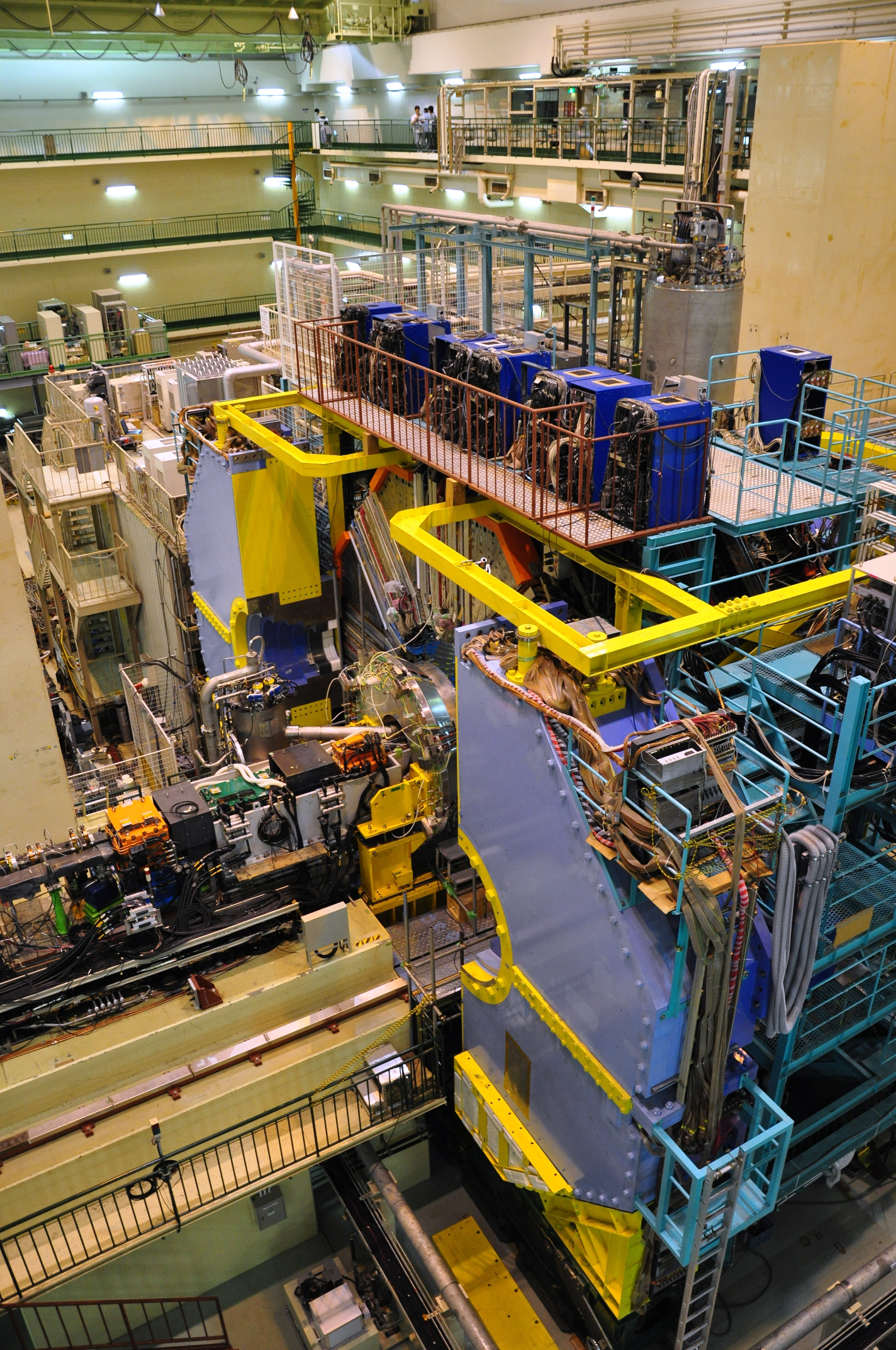 BELLE Detector, KEKB. KEK (High Energy Accelerator Research Organization), Tsukuba city, Japan.